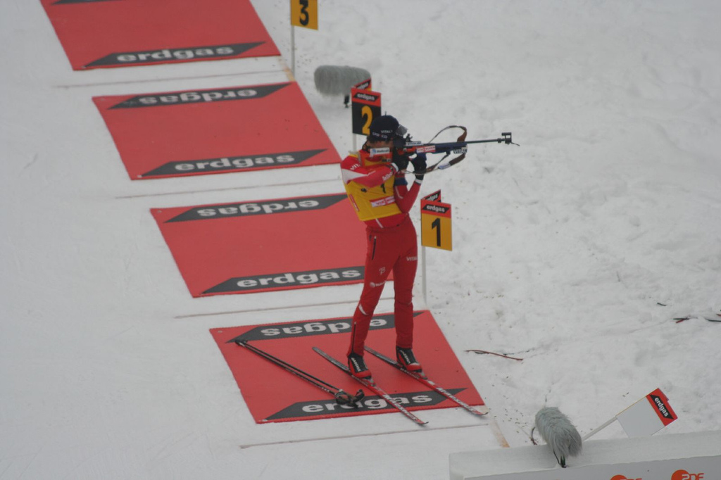 Ole Einar Bjorndalen while shooting.